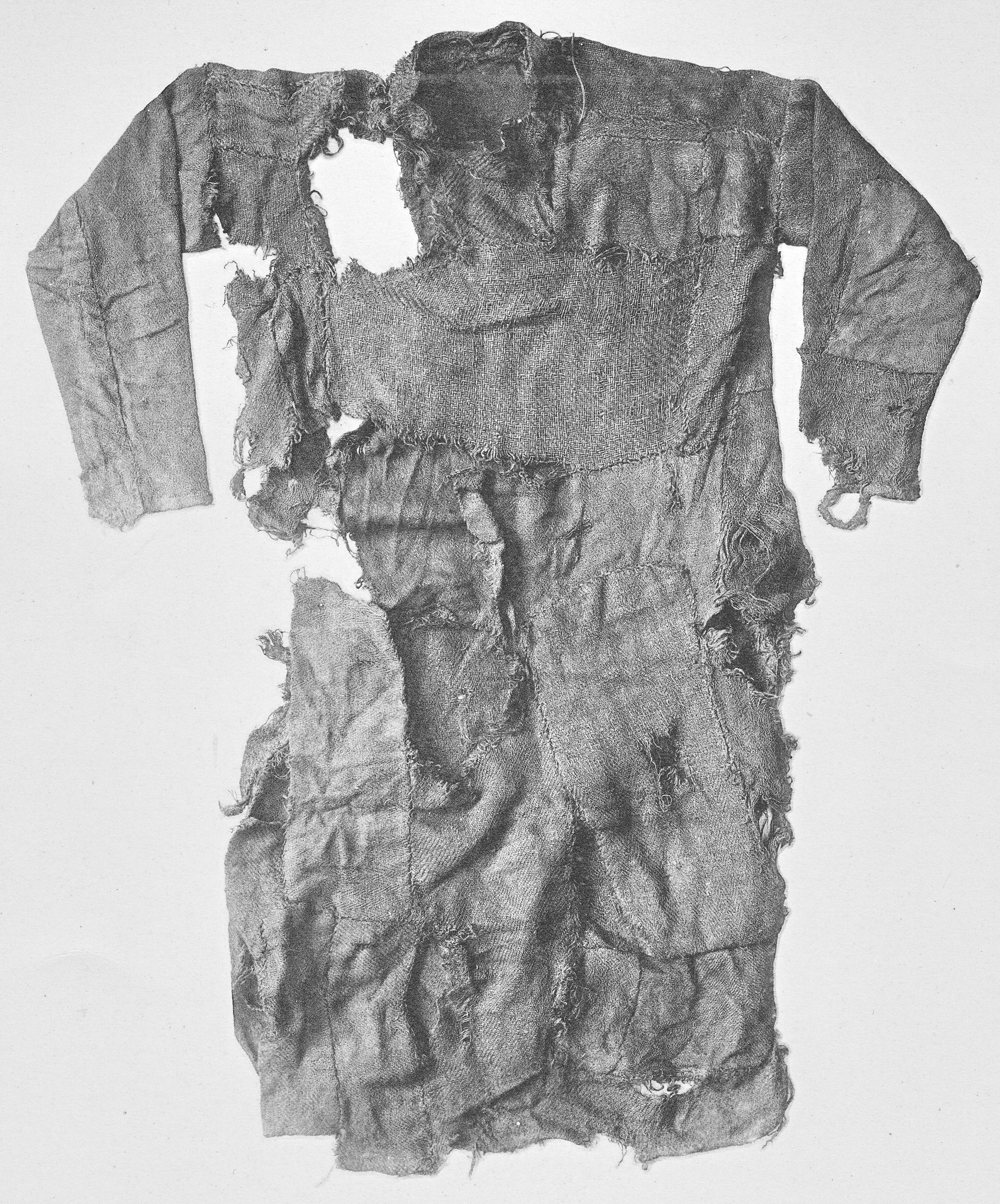 Front side of the tunic of bog body Bernuthsfeld Man dating to 680 and 775 AD. The tunic consists of 45 pieces of cloth from 20 different textiles in 9 different weaving patterns Found in 1907 in Hogehahn Bog near Tannenhausen (Landkreis Aurich), Lower Saxony, Germany.